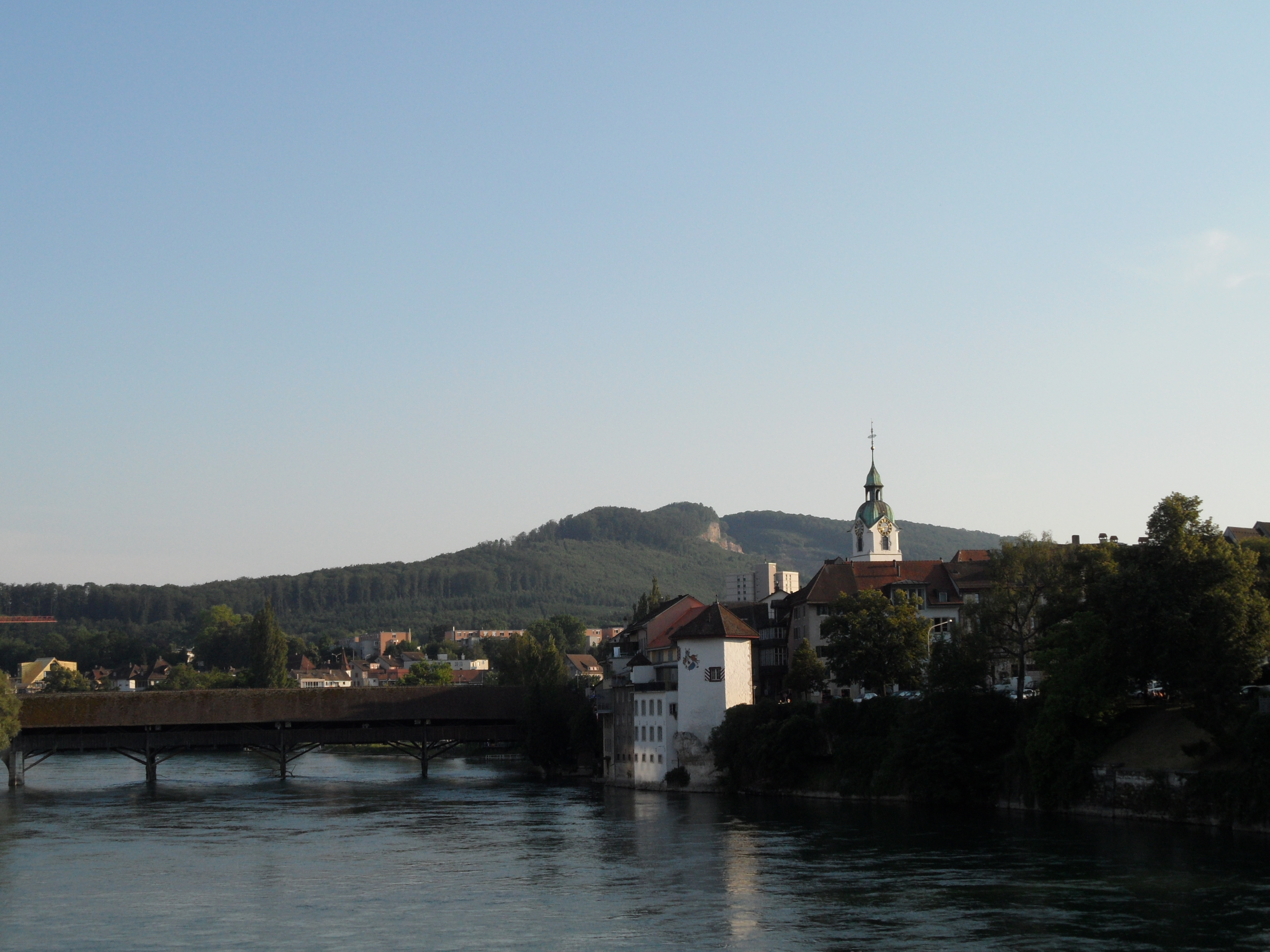 Old city of Olten, canton of Solothurn, Switzerland, with wooden bridge crossing the river Aare, and Stadtturm (city tower).